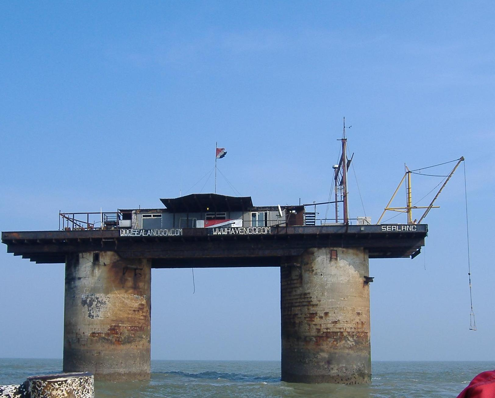 Sealand After Fire